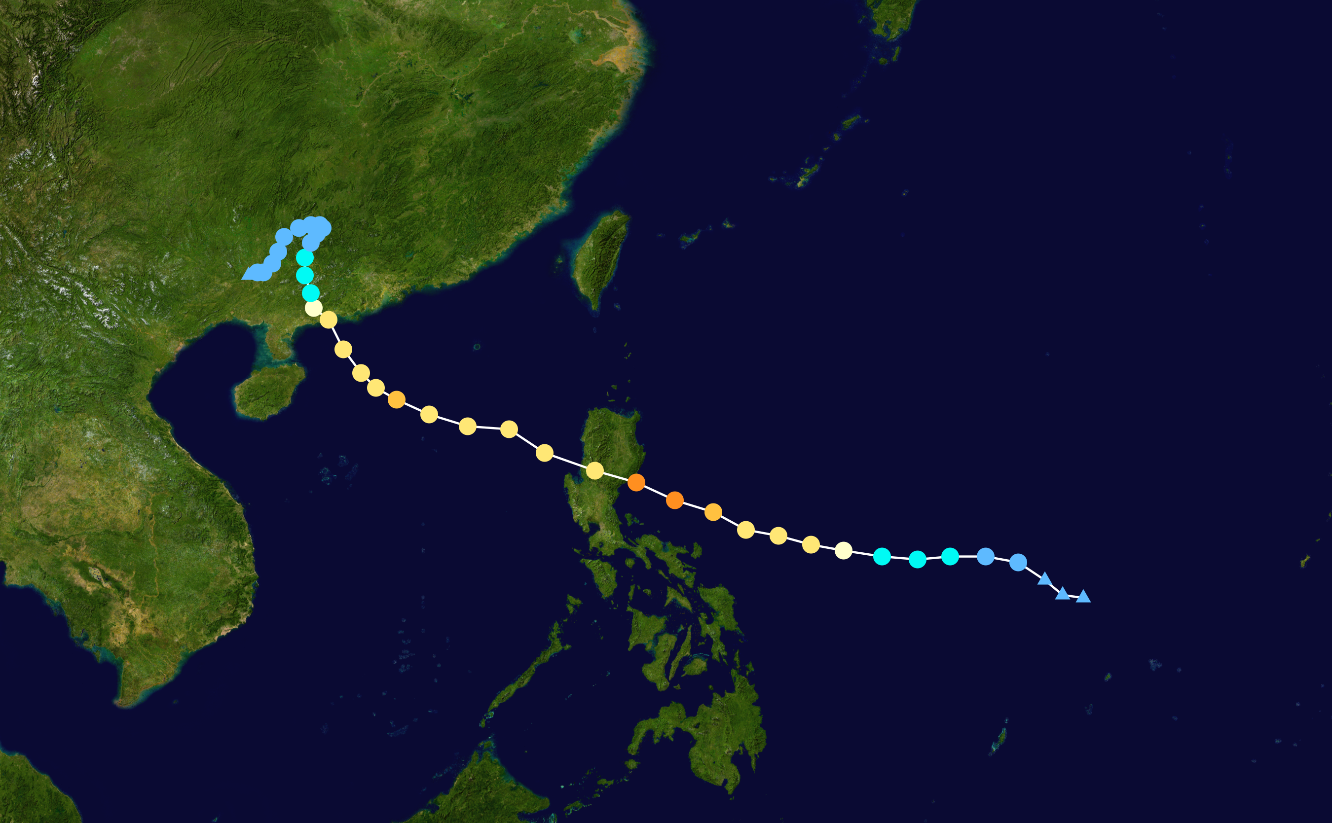 Track map of Typhoon Utor of the 2013 Pacific typhoon season. The points show the location of the storm at 6-hour intervals. The colour represents the storm's maximum sustained wind speeds as classified in the Saffir–Simpson scale (see below), and the shape of the data points represent the nature of the storm, according to the legend below. Saffir–Simpson scale Tropical depression≤38 mph≤62 km/h Category 3111–129 mph178–208 km/h Tropical storm39–73 mph63–118 km/h Category 4130–156 mph209–251 km/h Category 174–95 mph119–153 km/h Category 5≥157 mph≥252 km/h Category 296–110 mph154–177 km/h Unknown Storm type Tropical cyclone Subtropical cyclone Extratropical cyclone / Remnant low / Tropical disturbance / Monsoon depression